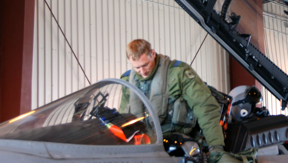 Canadian pilot Sean Penney in a CF-18